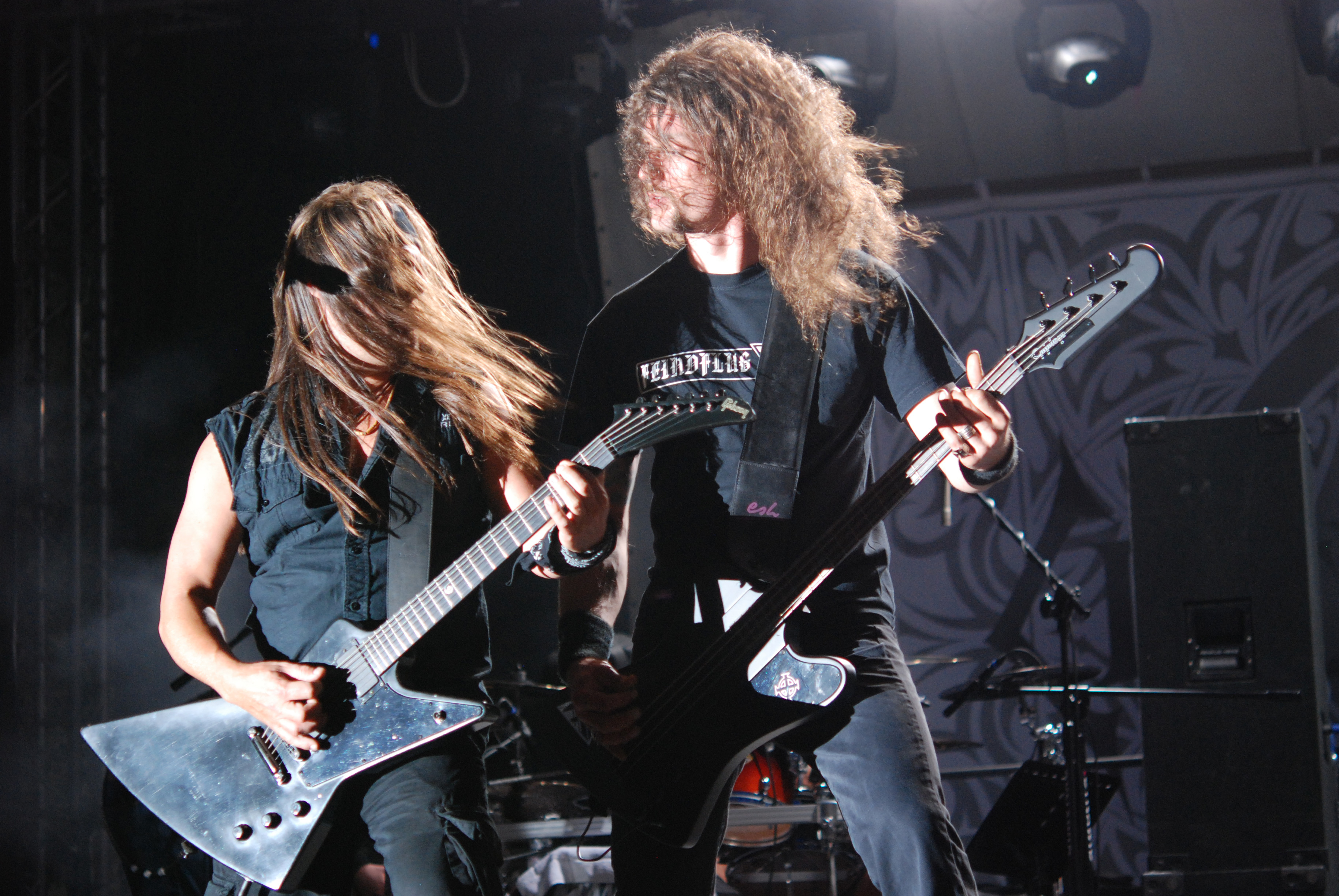 This photo was made in cooperation with CASTLE PARTY PRODUCTIONS in Bolków (webpage)